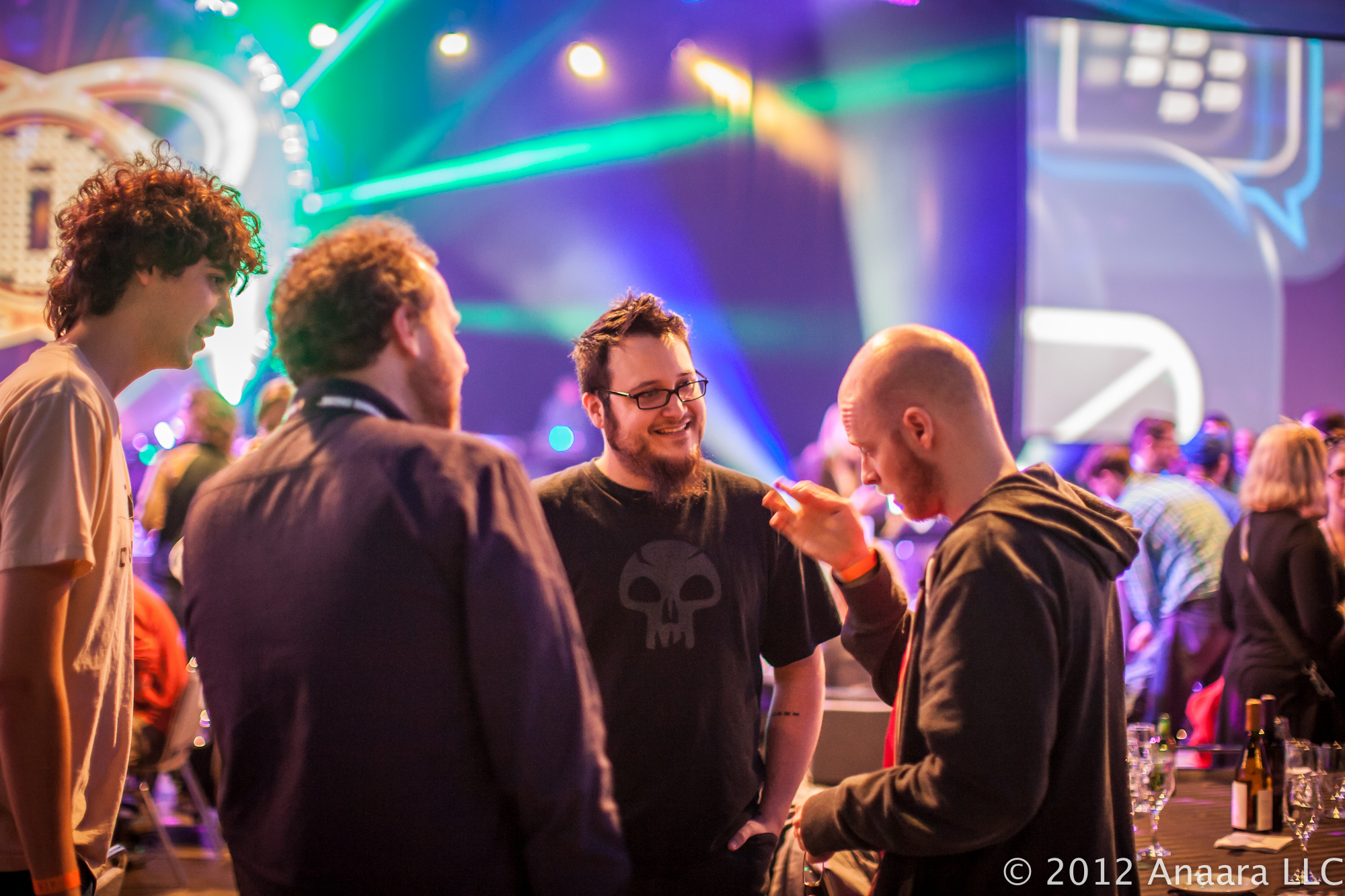 Game designers Edmund McMillen (third from left) and Tommy Refenes (far right) at Game Developers Choice Awards